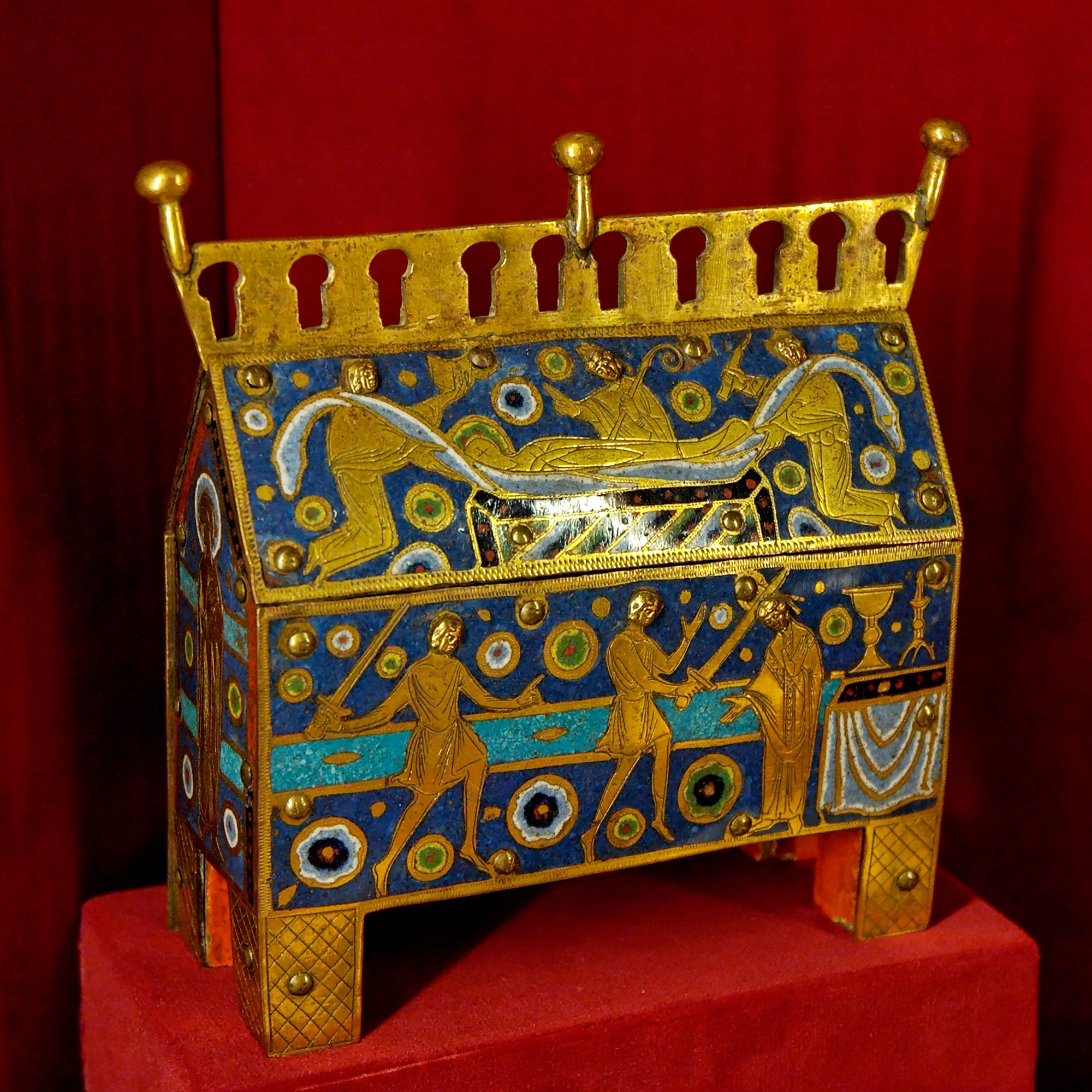 Reliquary of St. Thomas Becket. Champlevé copper, engraved, chased, enameled and gilt. Limoges, ca. 1190–1200. From Palencia, region of León, Spain.